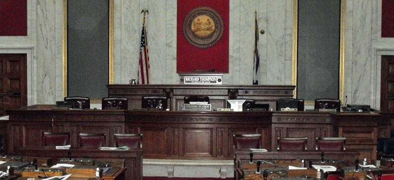 The chambers of the West Virginia House of Delegates